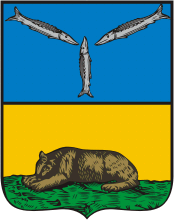 Volsk (Saratov oblast), coat of arms (1780)